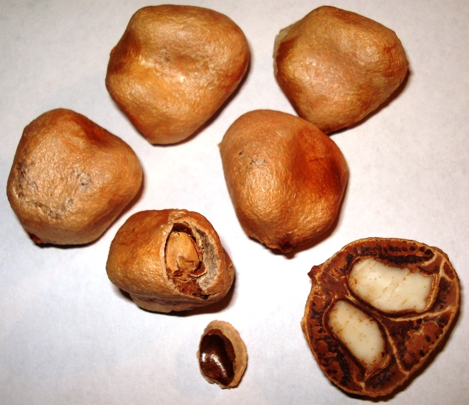 Marula - Sclerocarya birrea - Seed